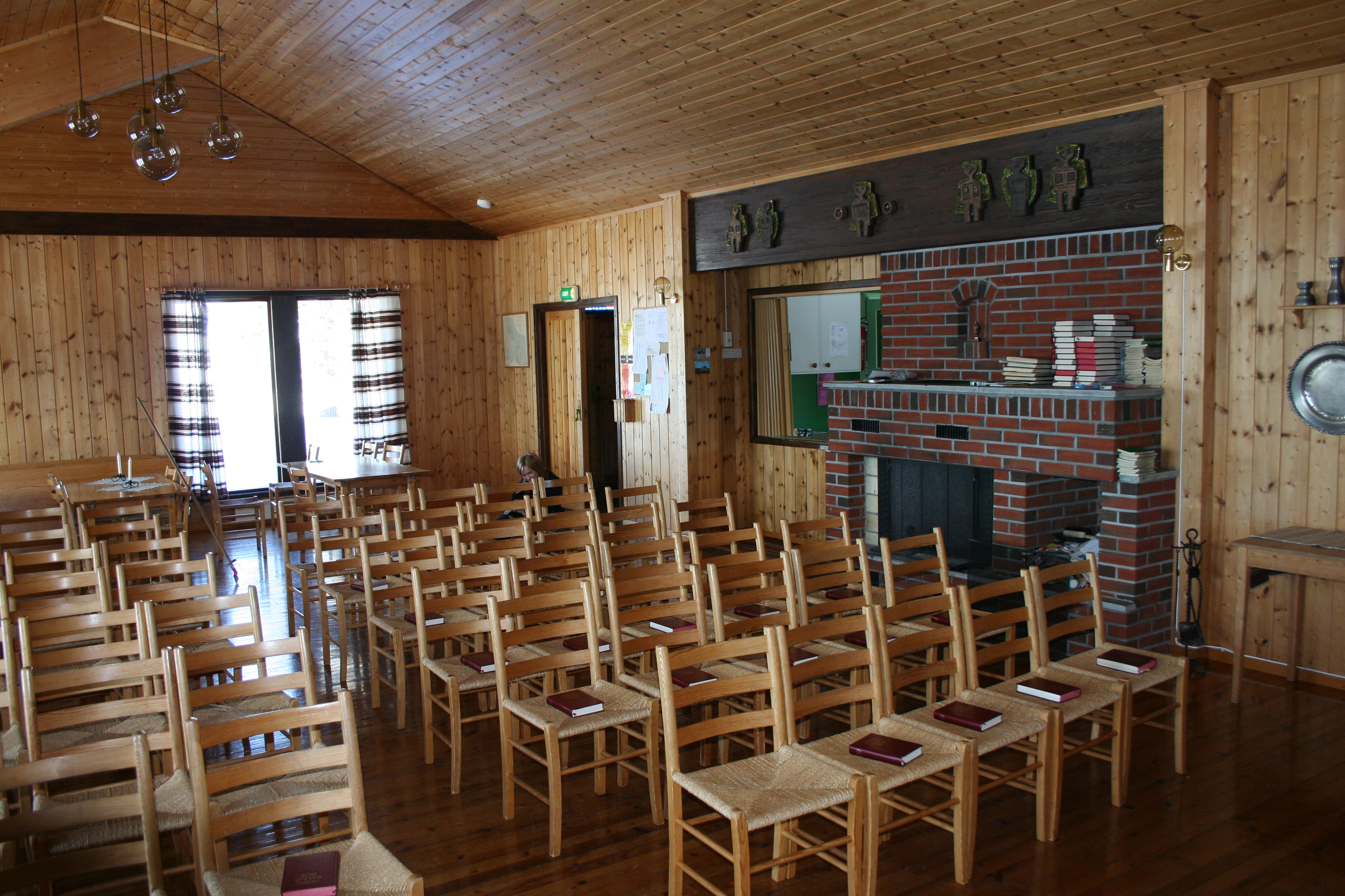 Ble sport chapel, Kongsberg, Norway, interior